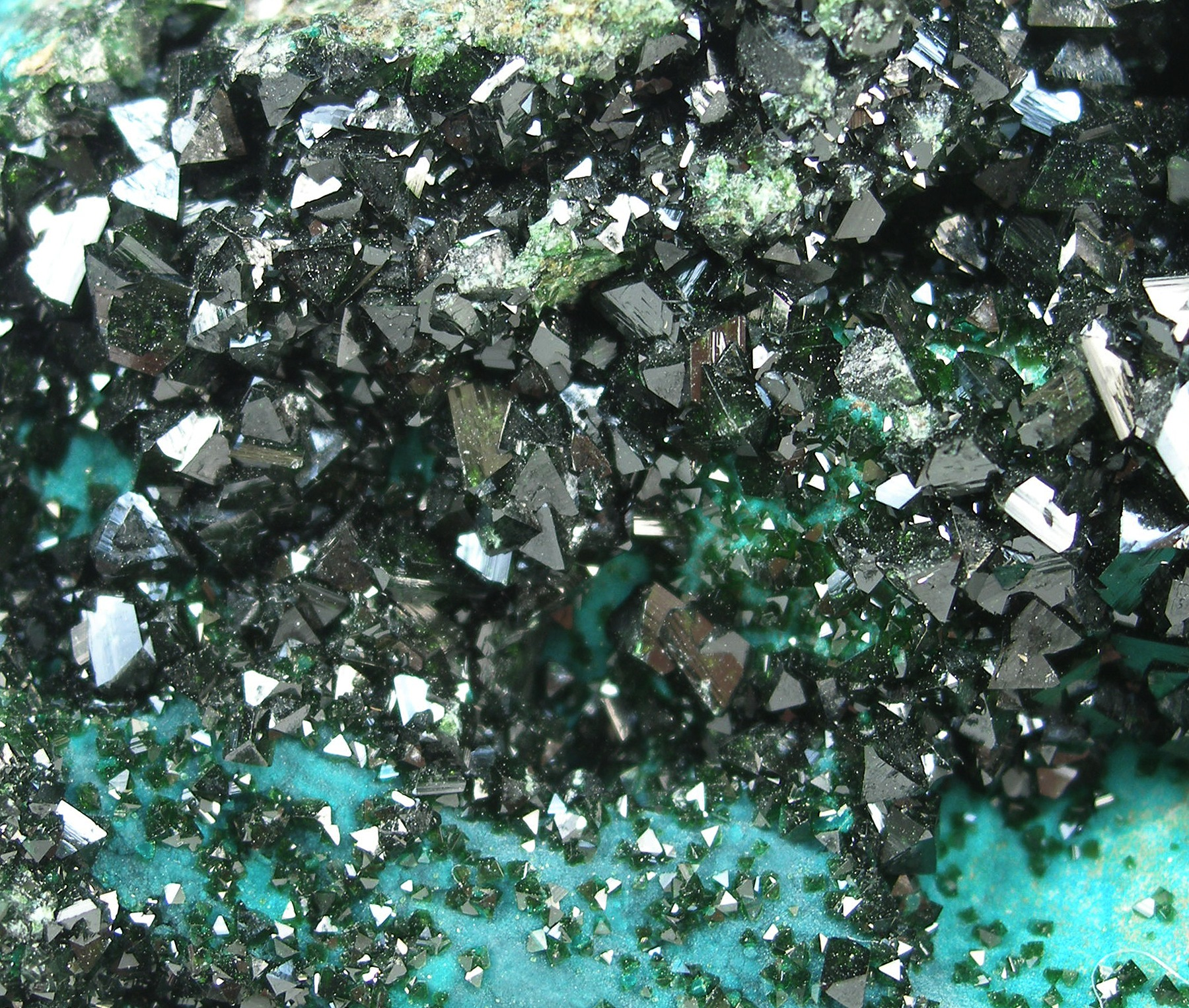 Libethenite Locality: Kambove, Central area, Katanga Copper Crescent, Katanga (Shaba), Democratic Republic of Congo (Zaïre) (Locality at ) Size: small cabinet, 8.0 x 4.6 x 3.3 cm Libethenite SHARP, intensely colorful crystals to about 3 mm cover this matrix plate and make for a very attractive and significant example of the species for this locale. Although you get larger libethenite from other places, the lustre and sharpness of these crystals is, for me, among the top for the species. They look like little green metallic octohedra at first glance. From the John Ydren collection, purchased for $125 in 1972 (a lot of money for those days!). Again, while you can get bigger crystals, this to me has more flash and color appeal than most, and overall is a superb example of the species.